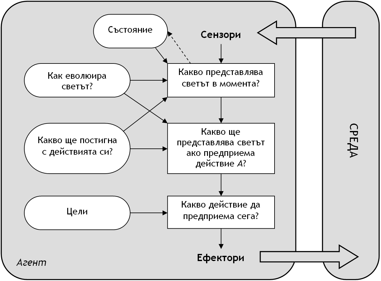 Diagram of a goal-based intelligent agent. In Bulgarian.